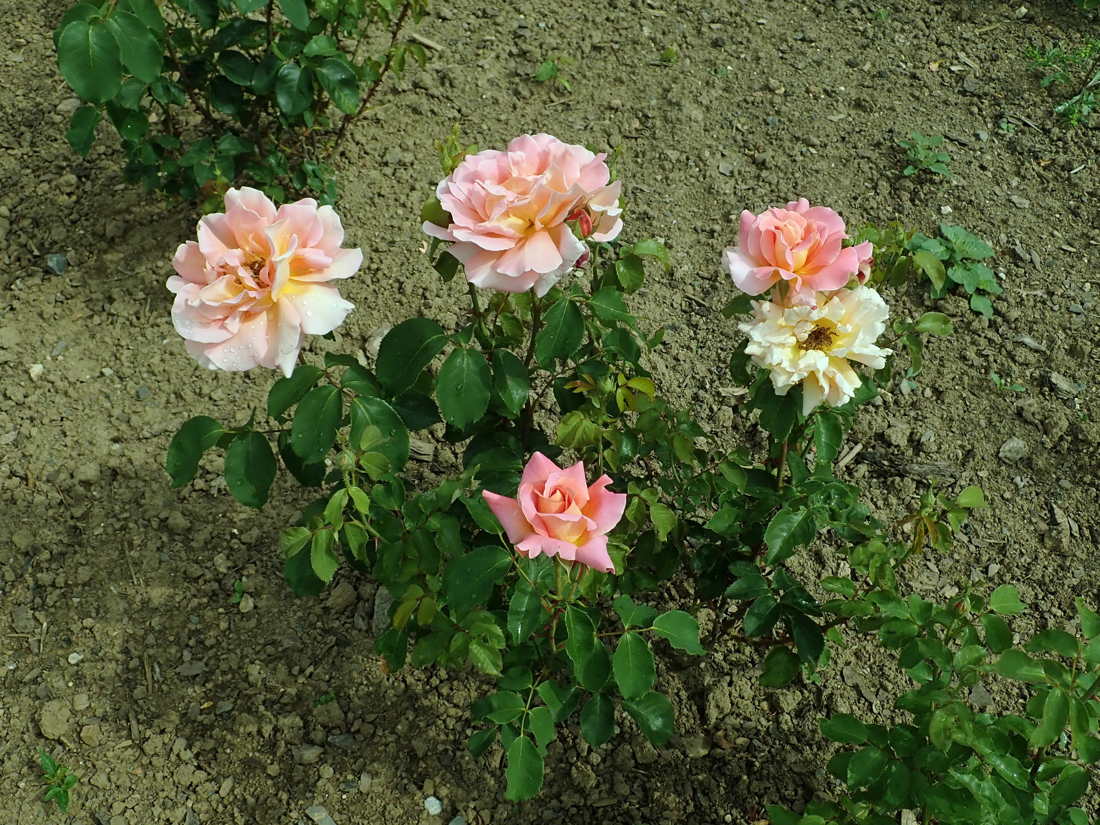 Rosa ‘Mme. Noël’ (Chambard, 1939), Europa-Rosarium Sangerhausen.